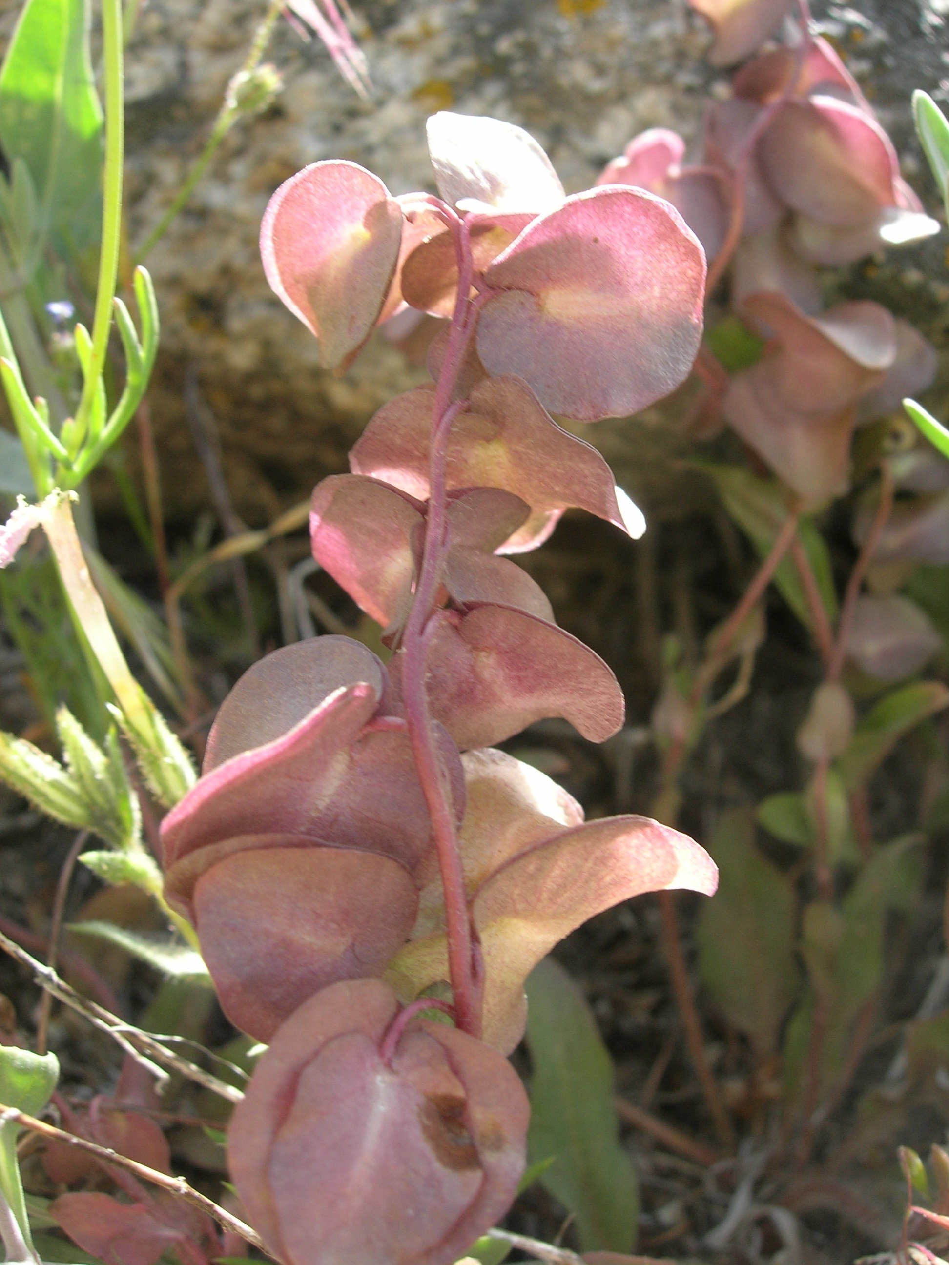 Tricardia watsonii in the eastern Sierra Nevada, California, USA